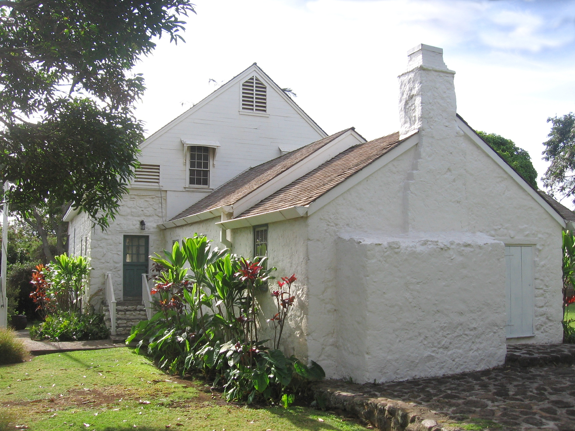 Photo of the Bailey House Museum, on Maui.